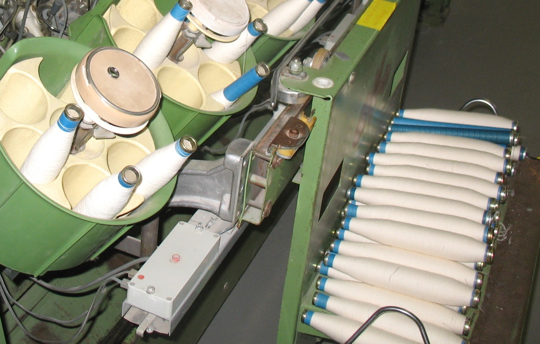 Schlafhorst Autoconer